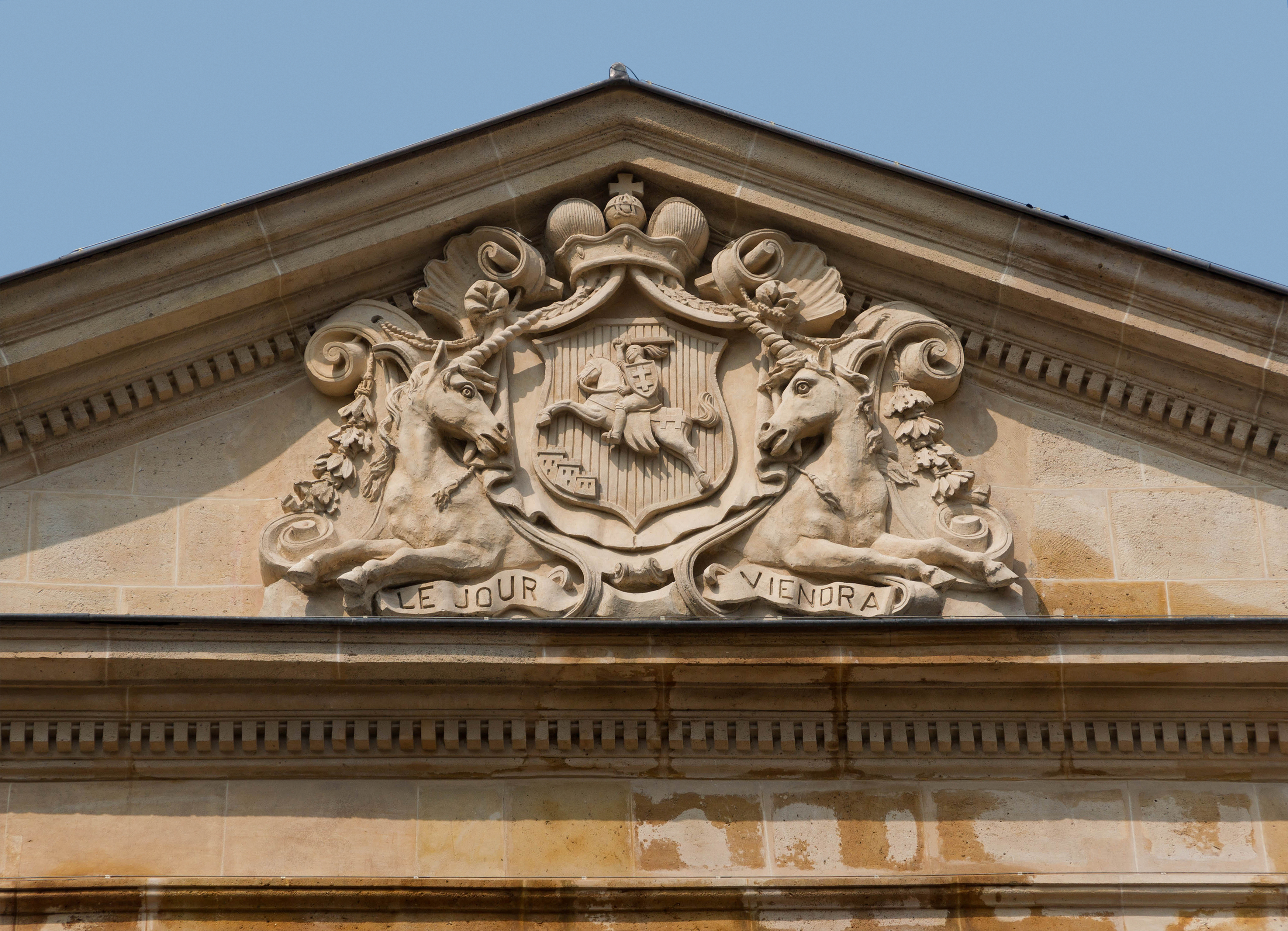 The CoA of the Czartoryski family, on the pediment of Hôtel Lambert in Paris, (main courtyard), after the july 2013 fire. There was a slate roof, instead of the blue sky...